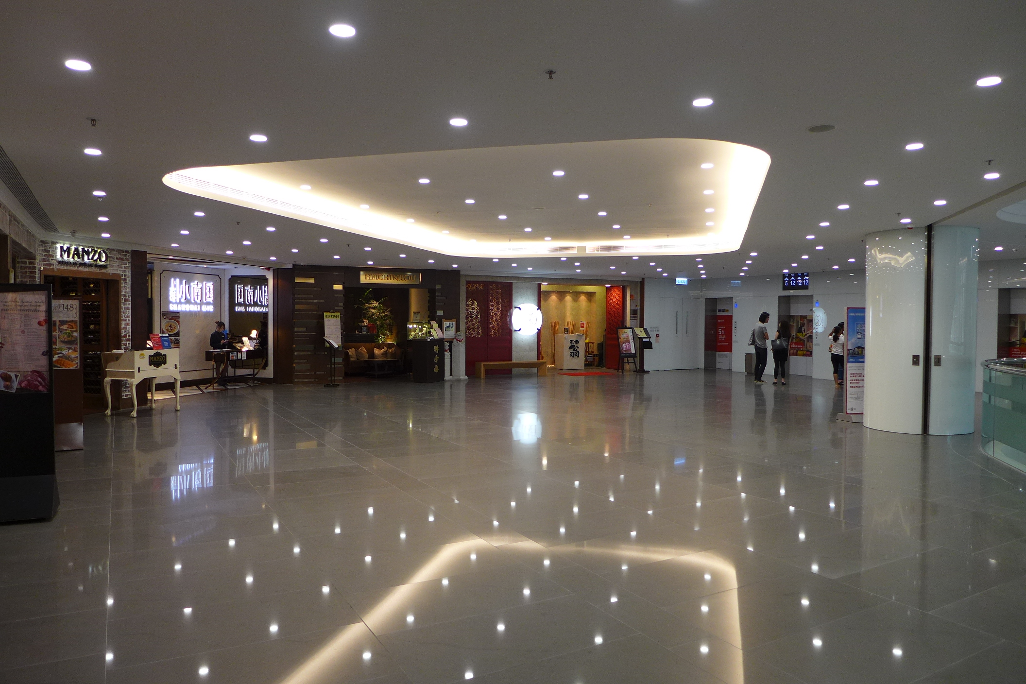 Time Square Food Forum 11F